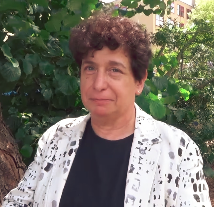 American professor Joan Tronto interviewed on Zorg Ethiek (the Ethics of Care).